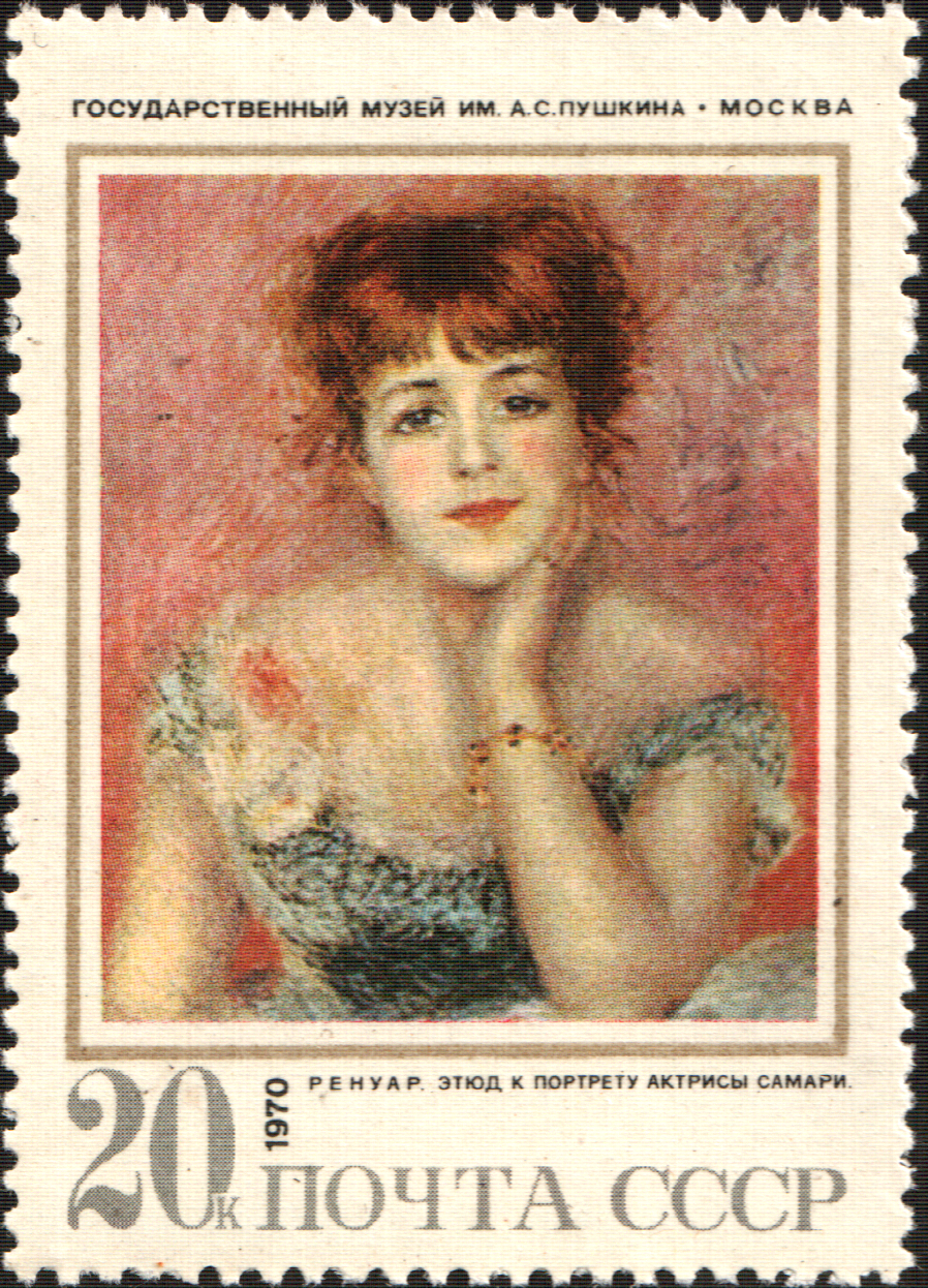 USSR stamp: The Actress Jeane Samary (Pierre-Auguste Renoir). Series: Foreign Paintings in the Soviet Union Museums